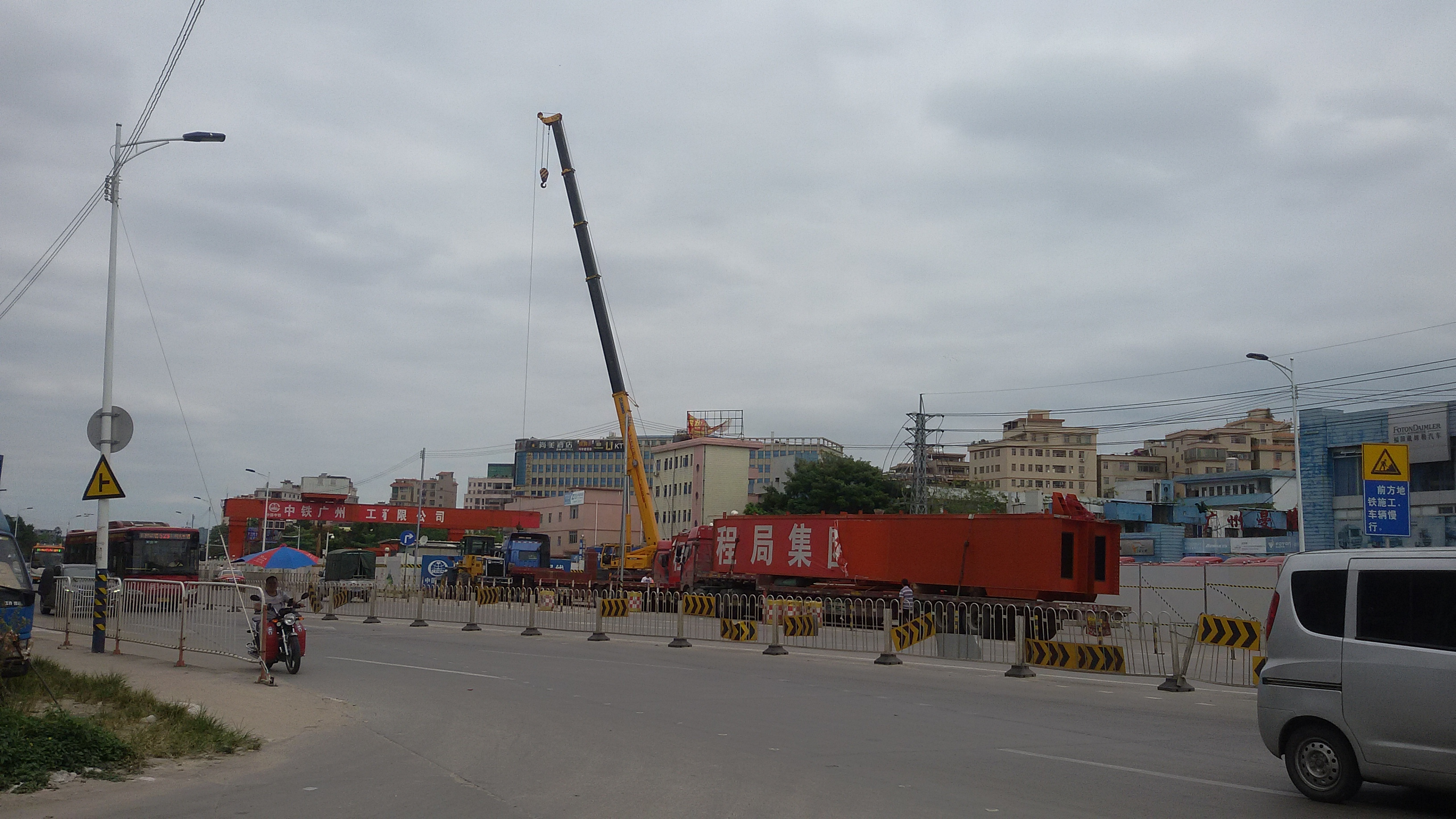 Dongping Station was under construction since Oct. 20th., 2017